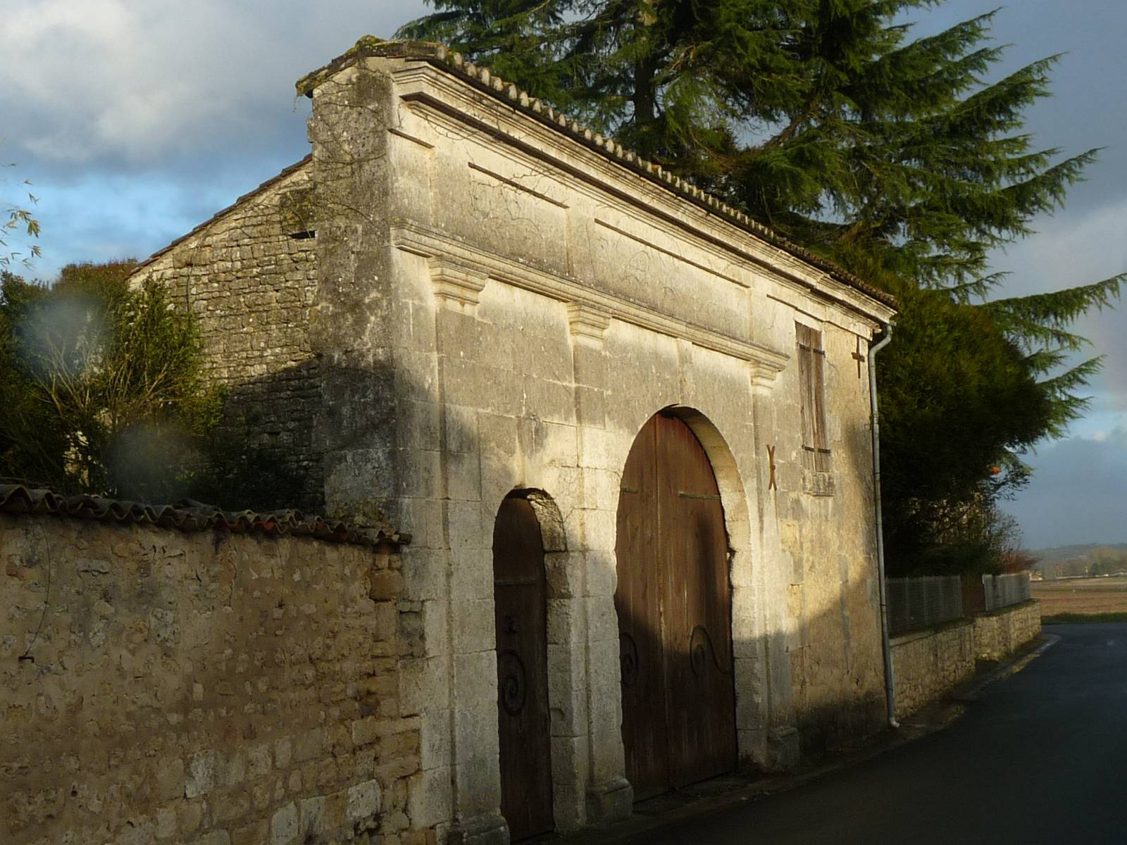 Charente farm porche gate at St-Yrieix, Charente, SW France